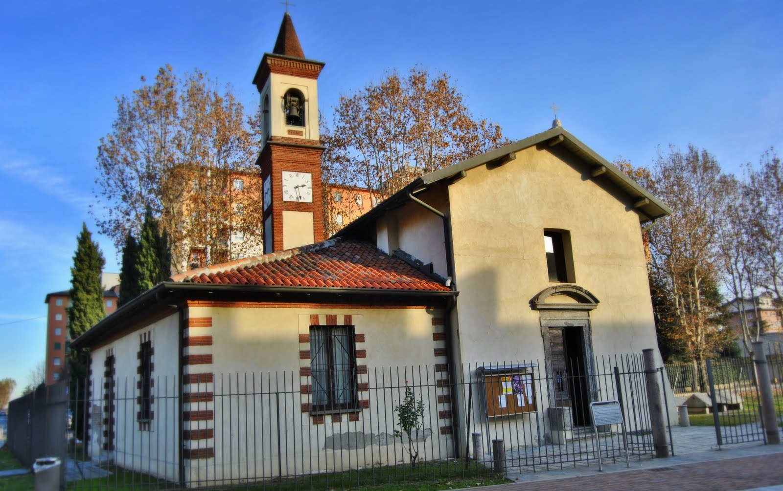 chiesetta sant'eusebio cinisello balsamo